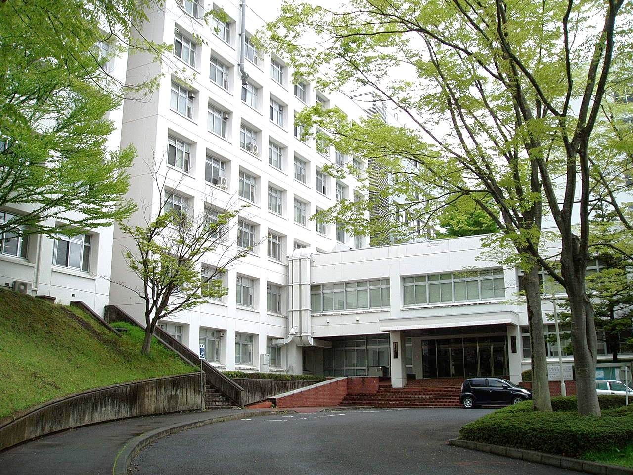 Faculty of Human Development and Culture, Fukushima University